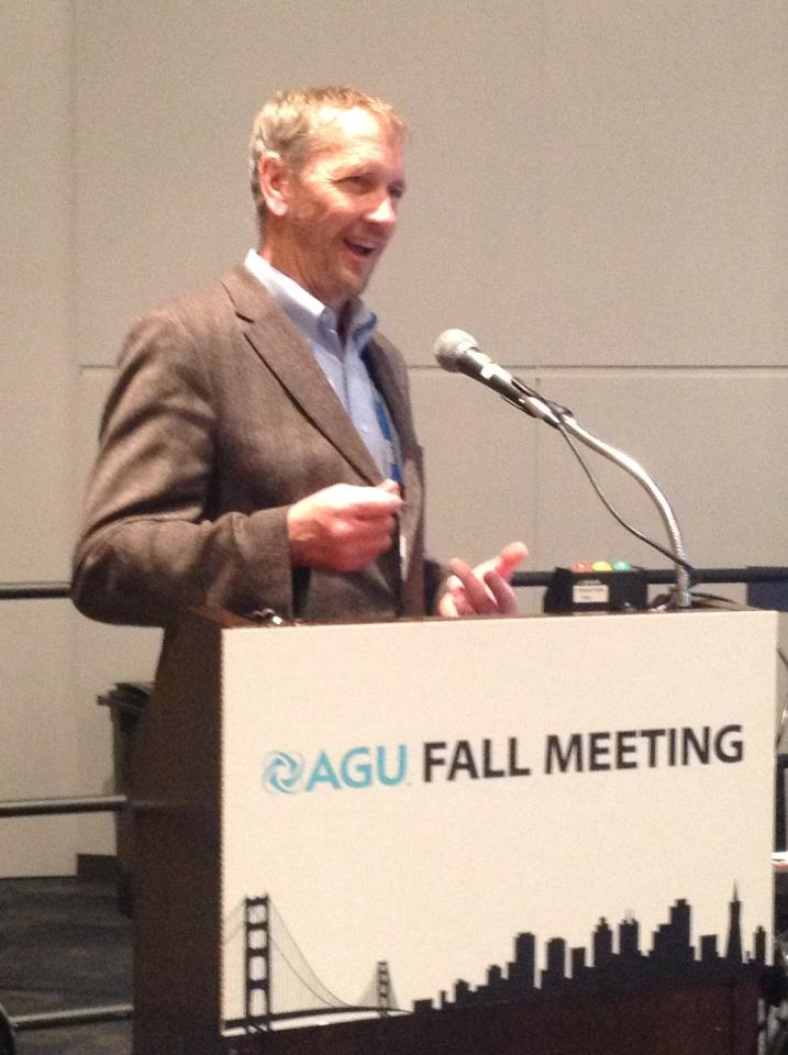 Mark Boslough at the American Geophysical Union Fall Meeting, December 2012, San Francisco.